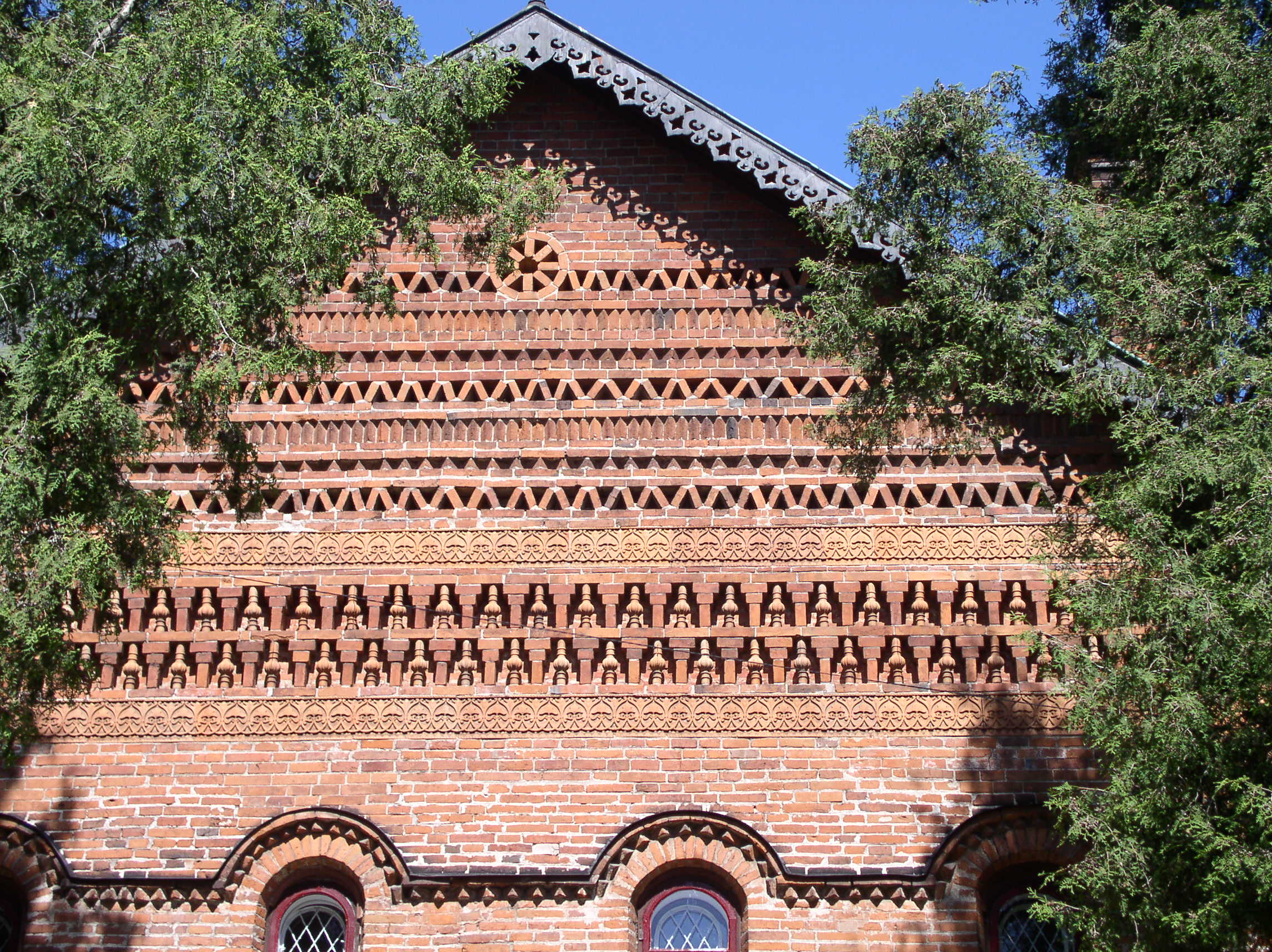 Brick ornament of the Prince Dmitry palace in Uglich, Russia